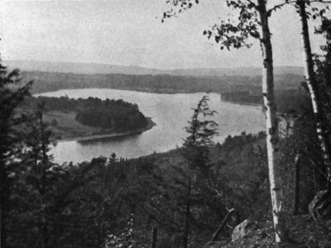 A photograph labeled "LAUREL LAKE AMONG THE BERKSHIRES" by Elizabeth N. Hoadley taken circa 1910.